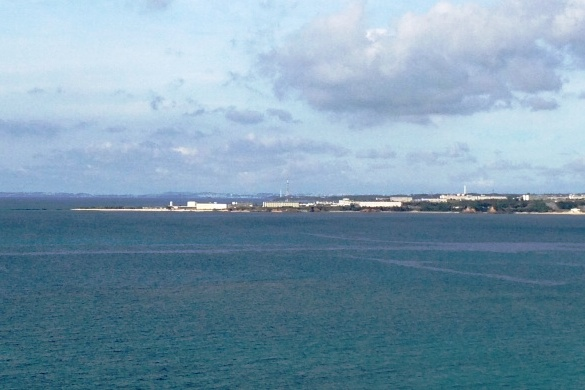 Ourawan bay and U.S. Marine Corps base Camp Schwab at Henokozaki cape, pictured from Abu district, Nago city, Okinawa